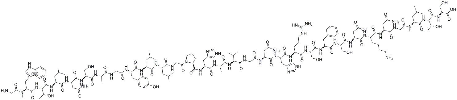 Human galanin structure